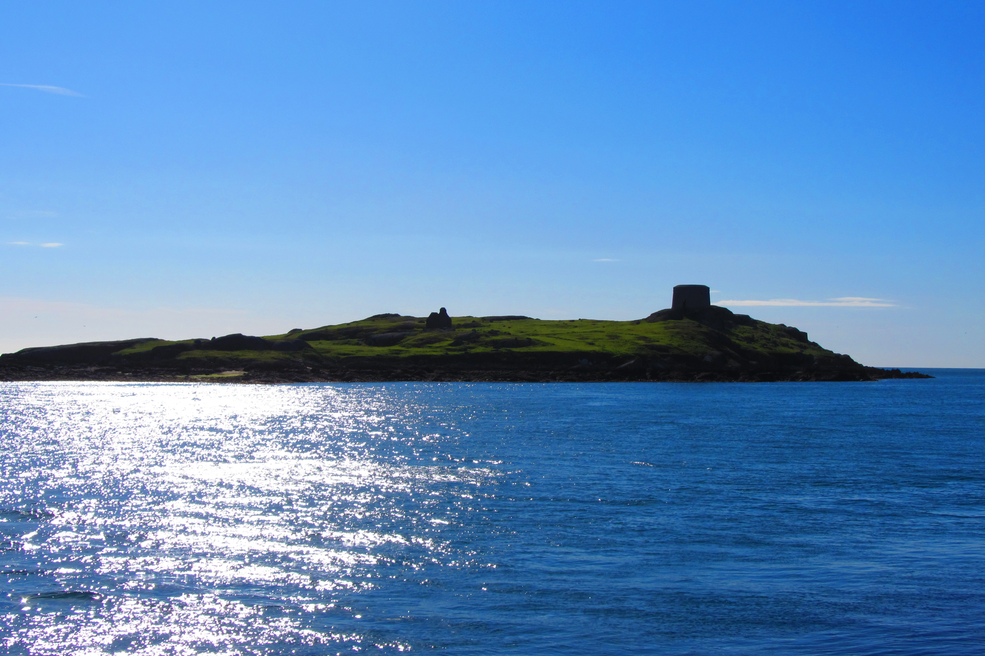 Dalkey Island